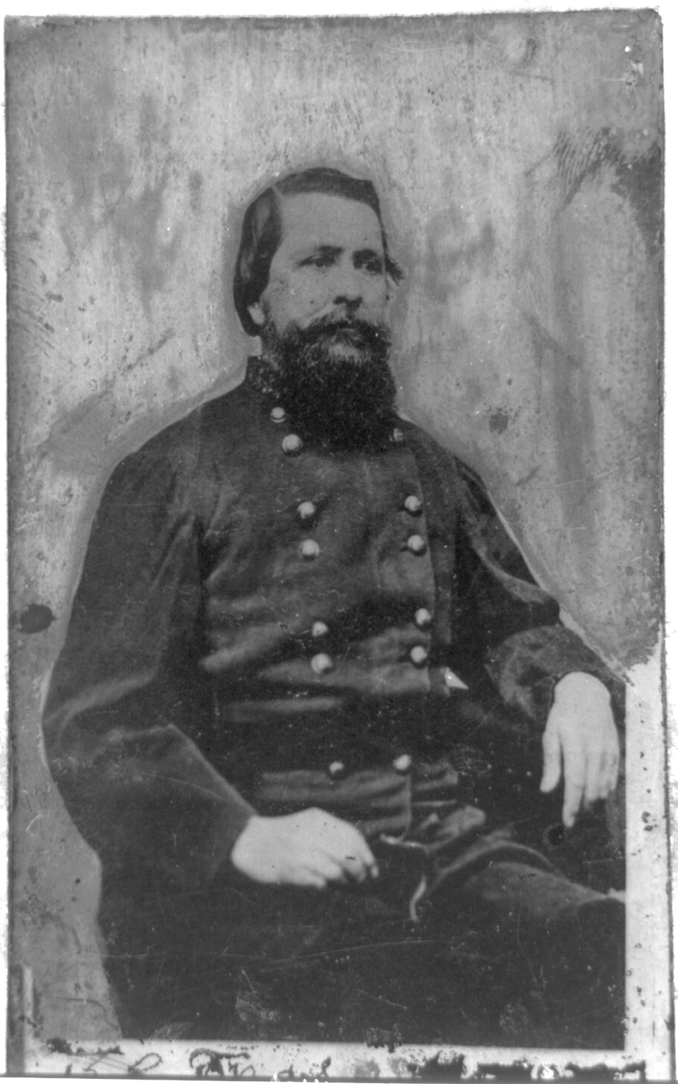 Title: Zachariah Cantey Deas, 1819-1882, three-quarters length, seated, facing right; in Confederate general's uniform Physical description: 1 photographic print : tintype. Notes: This record contains unverified, old data from caption card.